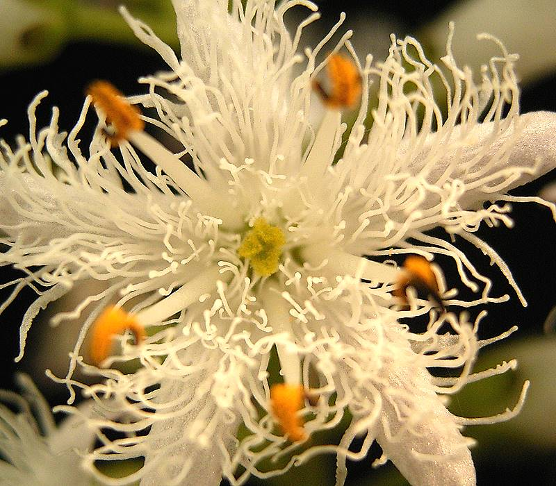 Menyanthes trifoliata